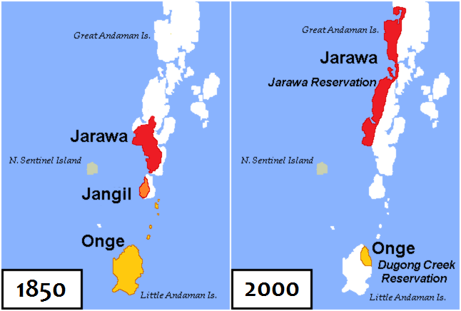 Distribution of the Andamanese Ongan languages before colonial times (Fig. 1) and today (Fig.2).